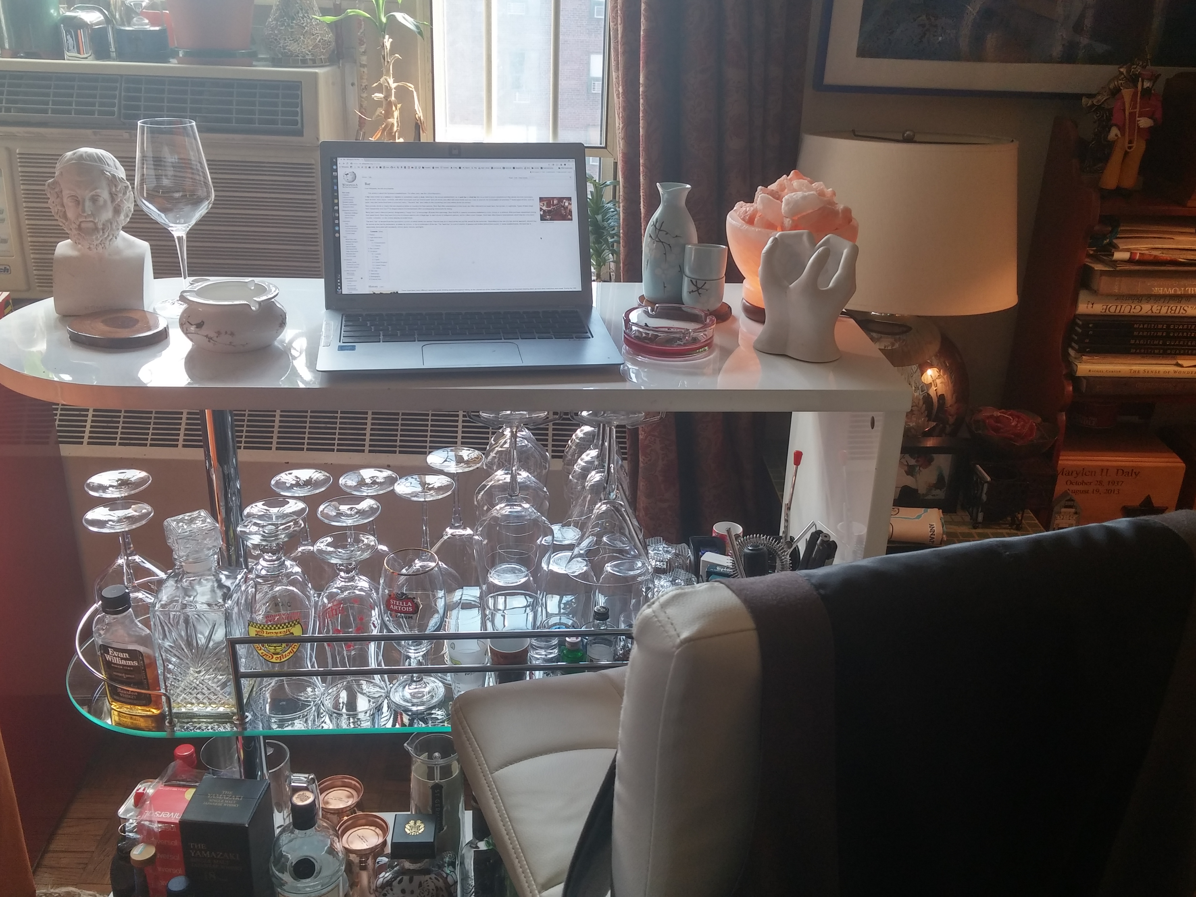 Example of a typical home bar in New York City, USA.